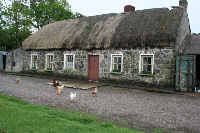 Ballyscullion This is one of the few thatched cottages still inhabited in this area. There were ducks as well as chickens outside it, but they were reluctant to get into the photograph.